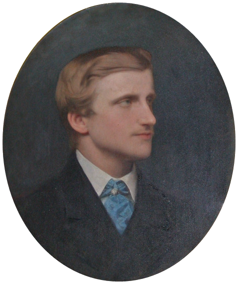 Louis of Orléans (1845-1866), prince of Condé.